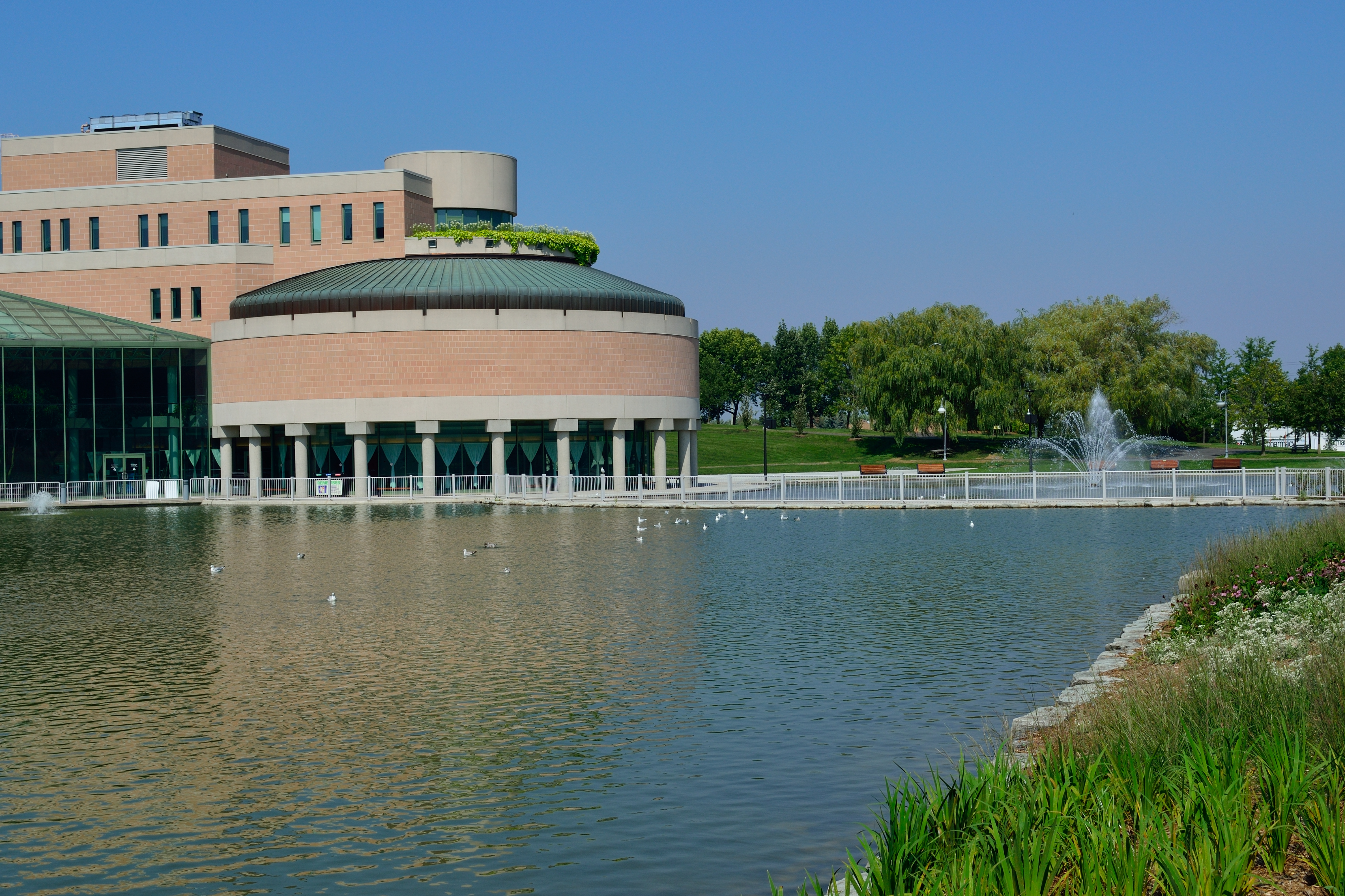 Markham Civic Centre